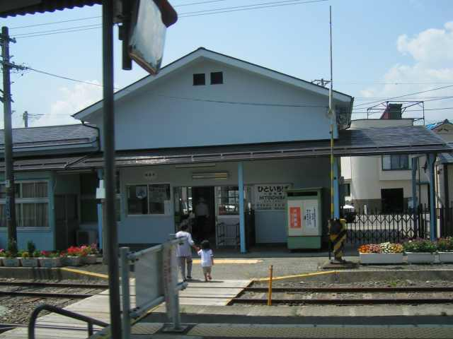 Hitoichiba Station in Azumino, Nagano, Japan